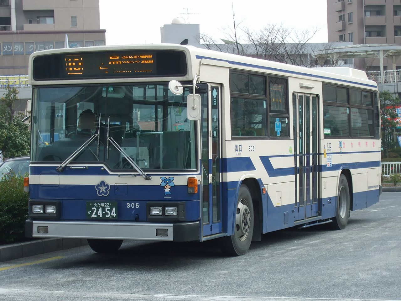 Company:Kitakyushu City Transportation Bureau Use:transit bus Car license:北九州22 か 2454 Code:305 Belongs to:Wakamatsu Depot Chassis manufacturer:Mitsubishi Motors Coachbuilder:Nishinippon Shatai Kogyo Location:in Tobata Ward, Kitakyushu City, Fukuoka, Japan